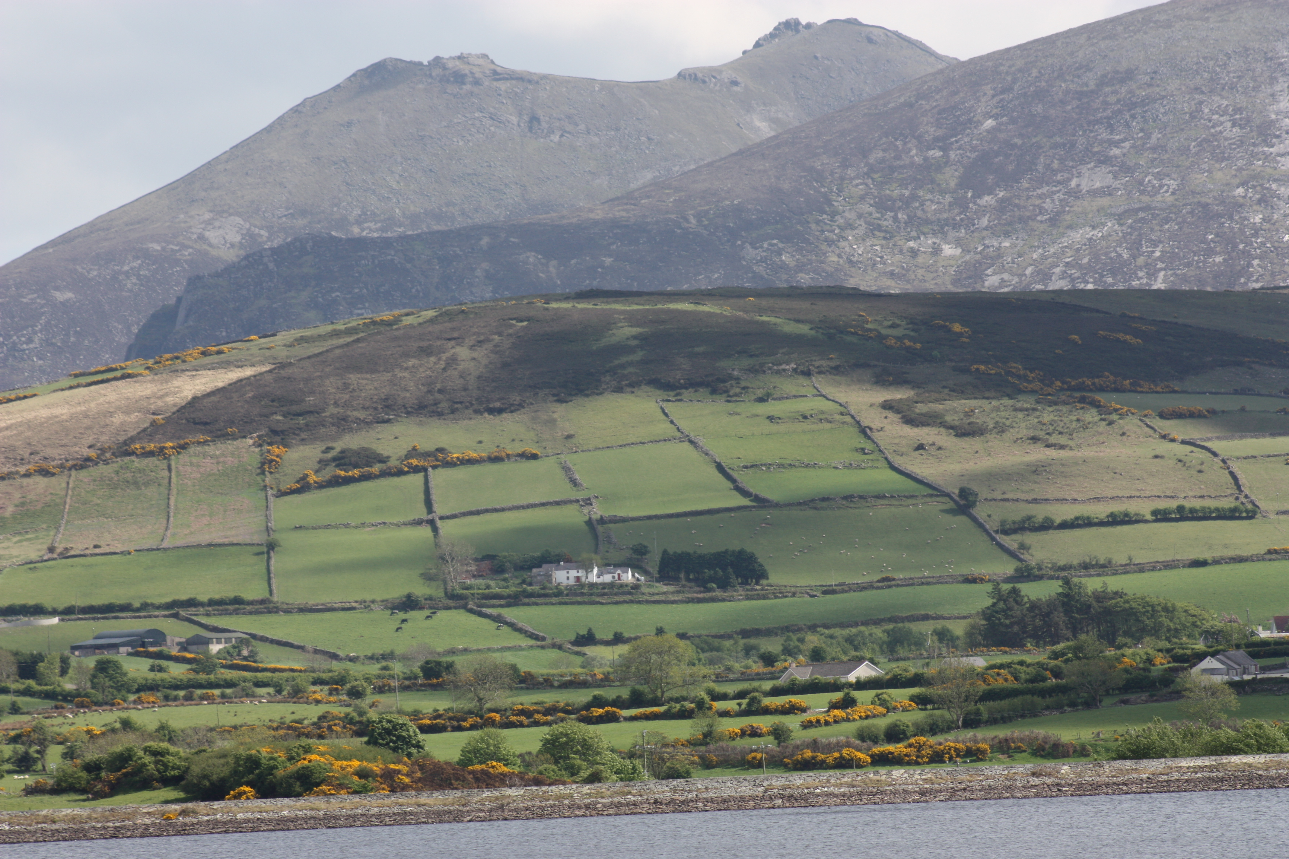 Mourne Mountains, County Down, Northern Ireland, May 2010 (viewed from Lacken Road, between Castlewellan and Kilcoo)